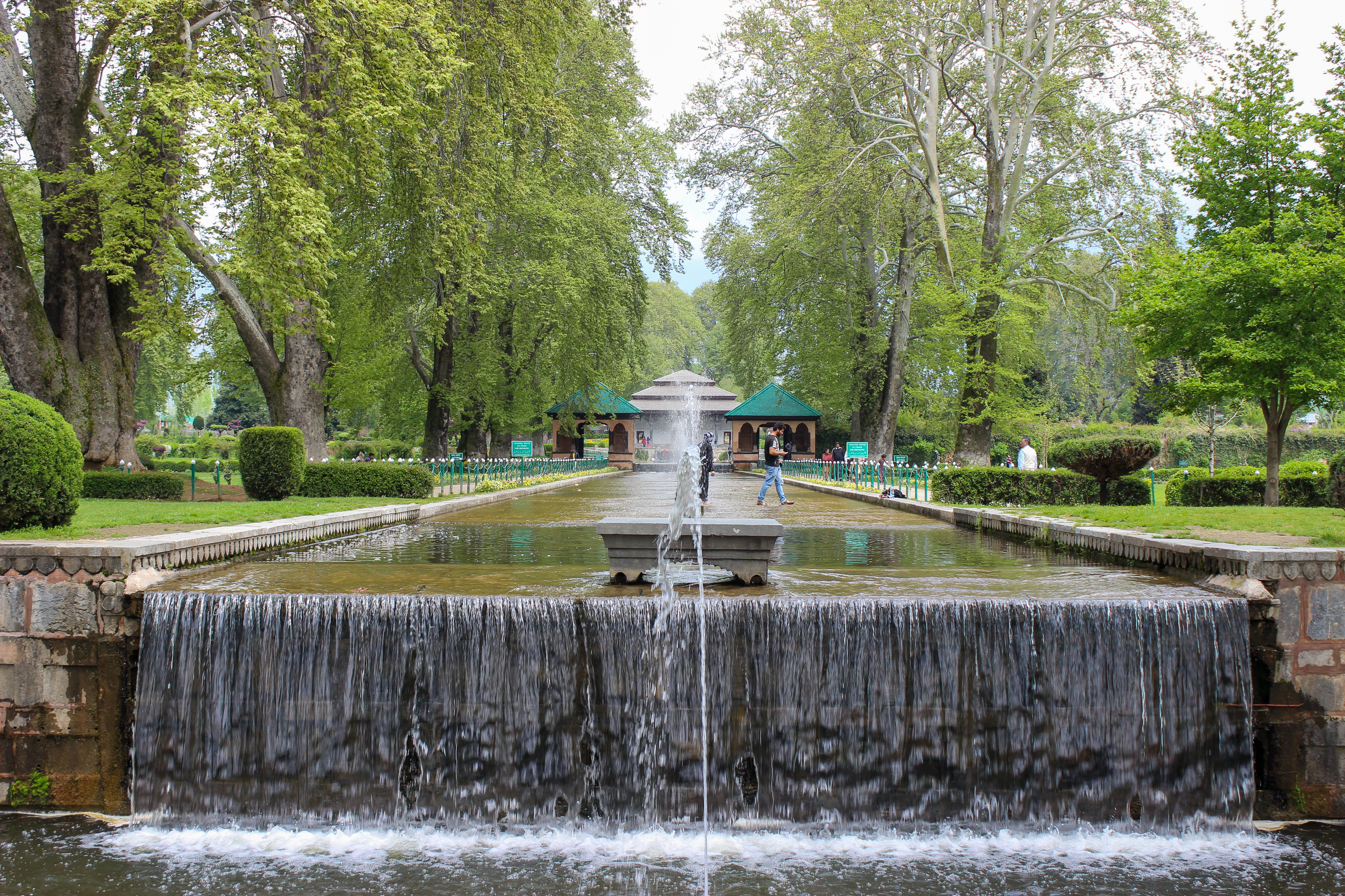 Shalimar Bagh is a Mughal garden in Srinagar, linked through a channel to the northeast of Dal Lake, on its right bank located on the outskirts of Srinagar city in Jammu and Kashmir. The other famous shore line garden in the vicinity is Nishat Bagh. The Bagh was built by Mughal Emperor Jahangir for his wife Nur Jahan, in 1619. The Bagh is considered the high point of Mughal horticulture.